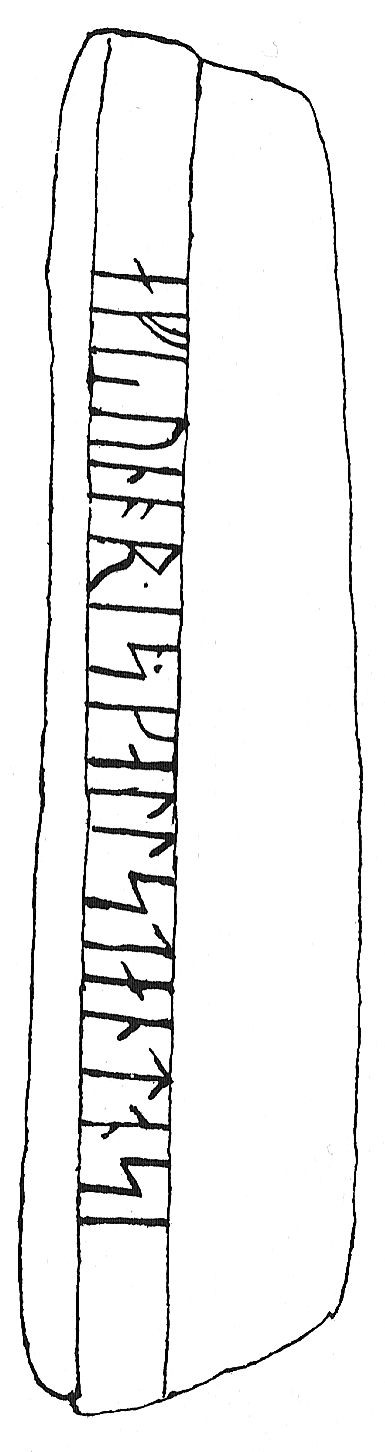 DR 323 runestone, Lilla Harriestenen, depicted by Nils Wessman 1740. Published in Bautil 1750.